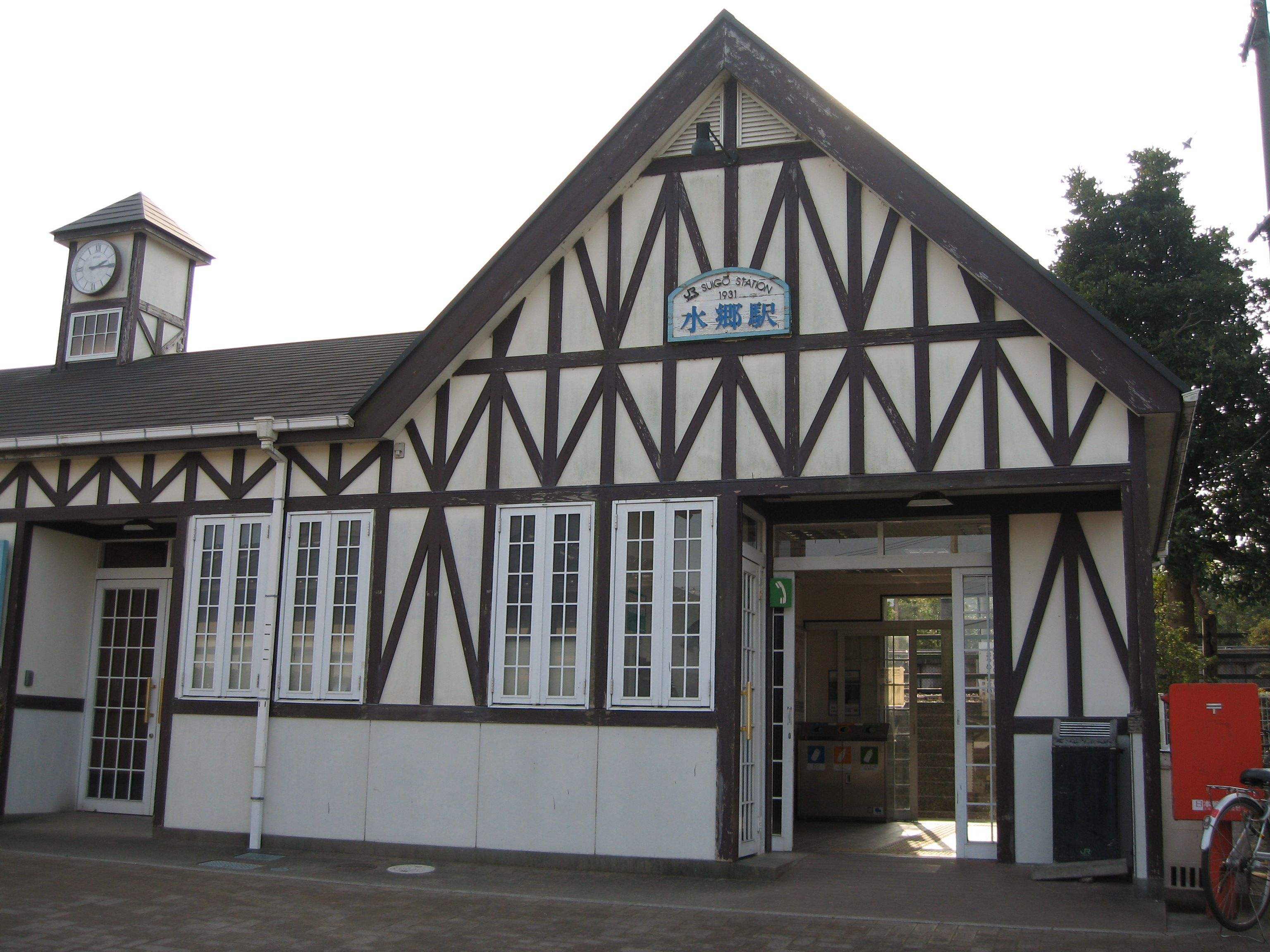 Suigo Station, Narita Line, Chiba, Japan